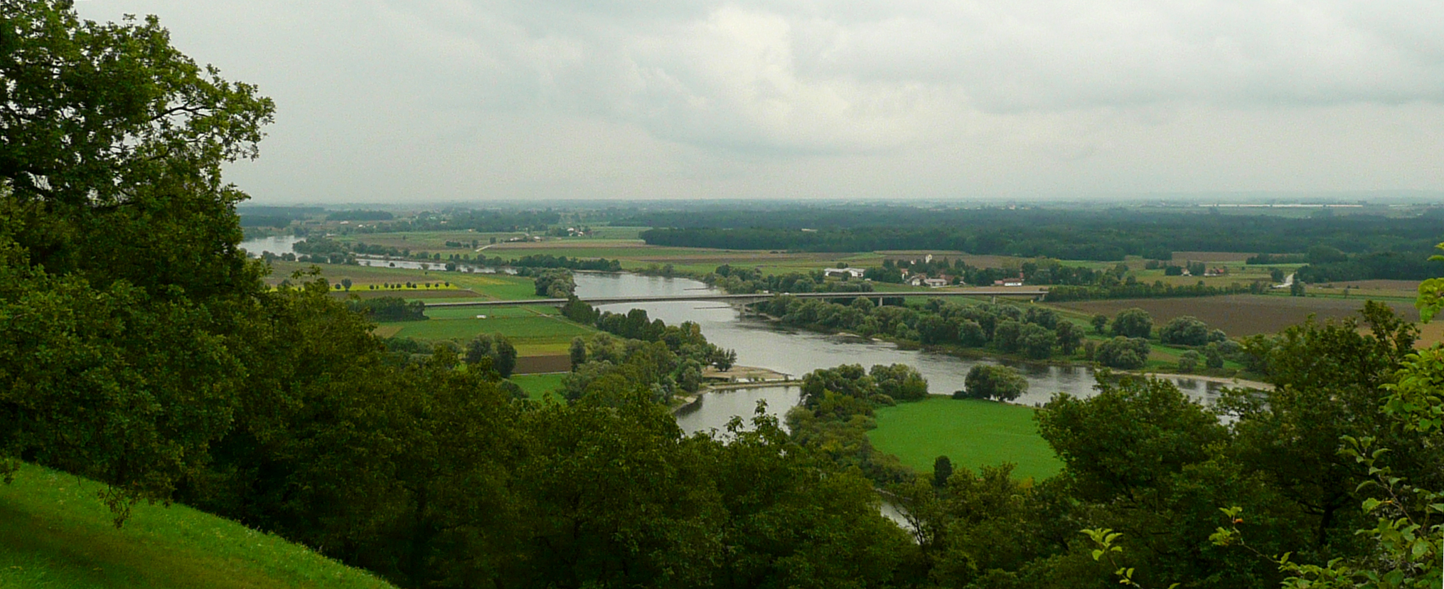 The Danube and an old arm as viewed from Bogenberg hill, Lower Bavaria